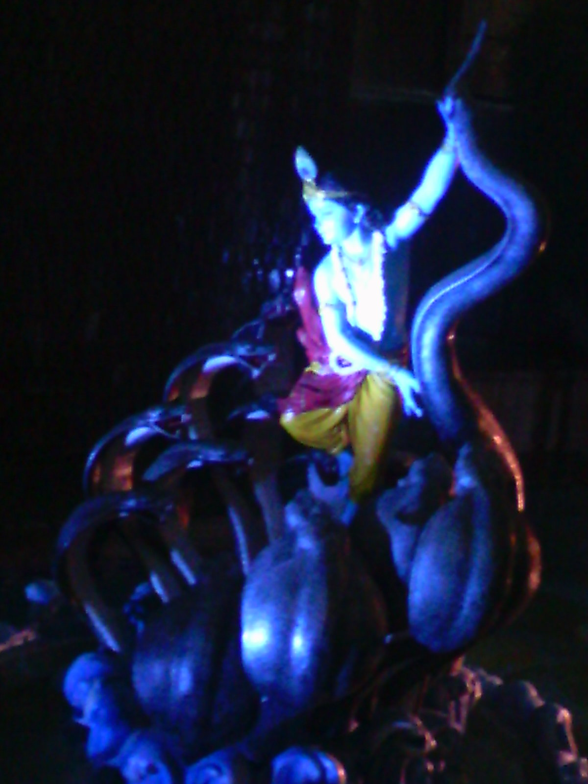 iskon visit delhi